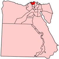 Map of Egypt showing Kafr ash Shaykh (Kafr el Sheikh) governorate. Made by User:Golbez based on PD maps.